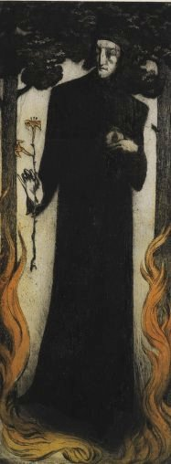 An engraving by Alfredo Müller, one of the six etchings of the series 'La Vie heureuse de Dante Alighieri' published by Ambroise Vollard end of 1898. Koehl E91